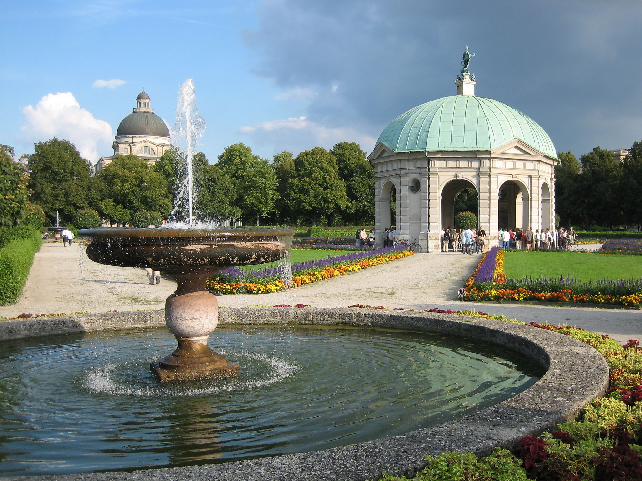 Hofgartentempel in Munich, Germany